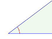 Graphic of an acute angle, by Toobaz (